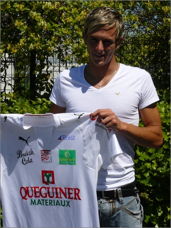 Photo of french player Nolan Roux